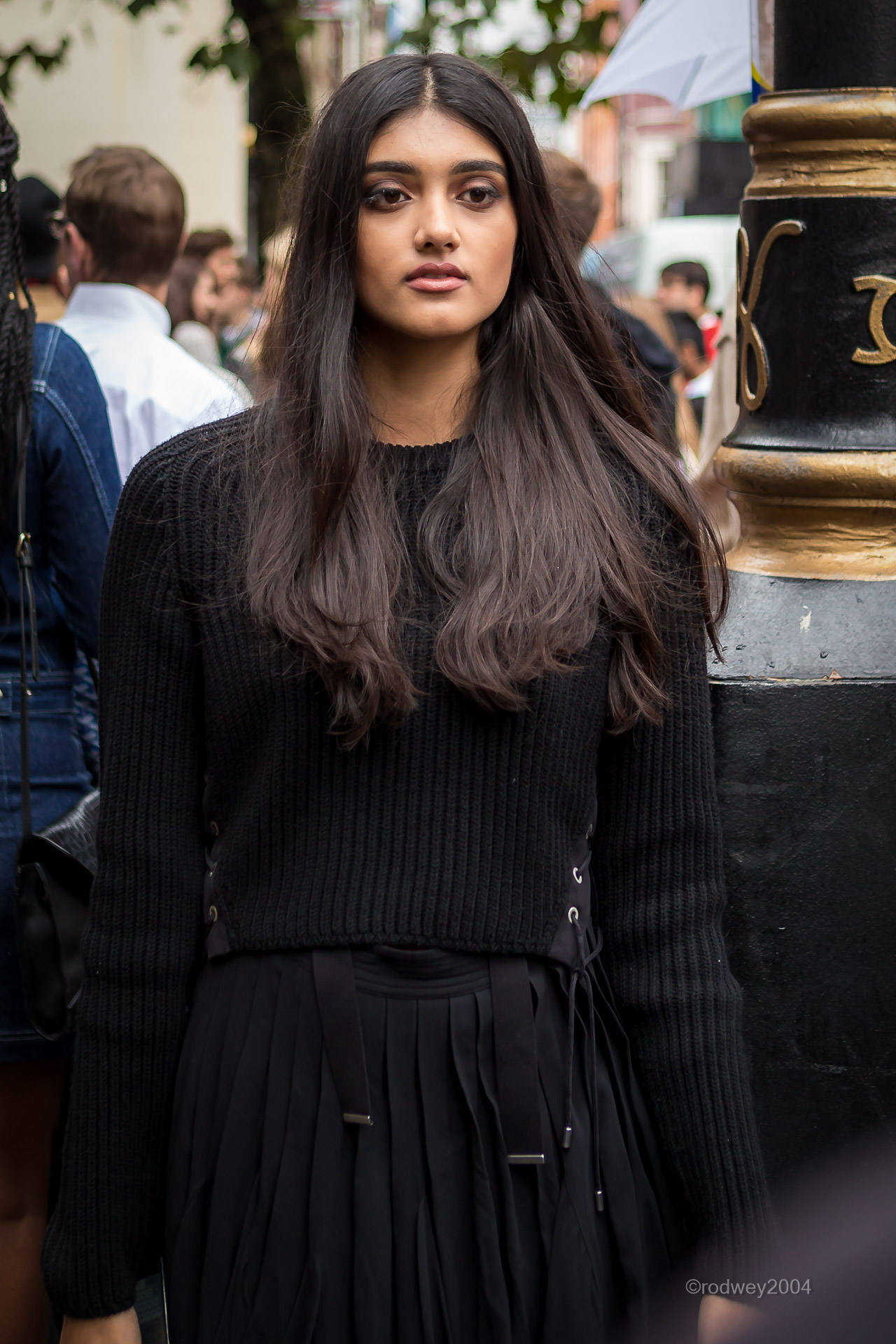 Model Neelam Gill on September 22, 2015 during London Fashion Week.